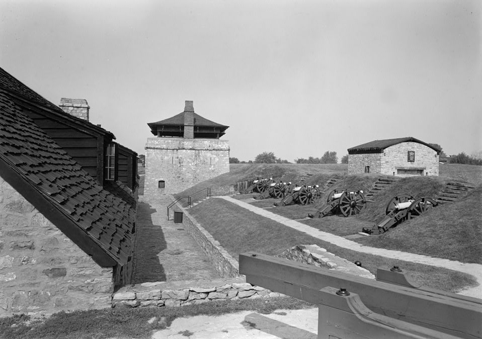 Fort Niagara, Fort Niagara State Park, Youngstown, Niagara County, NY - General view of battery overlooking drawbridge entrance